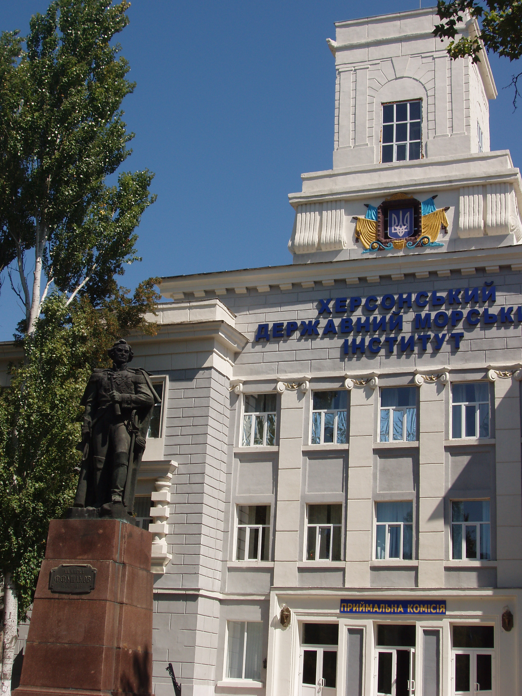 Kherson_Marine_school